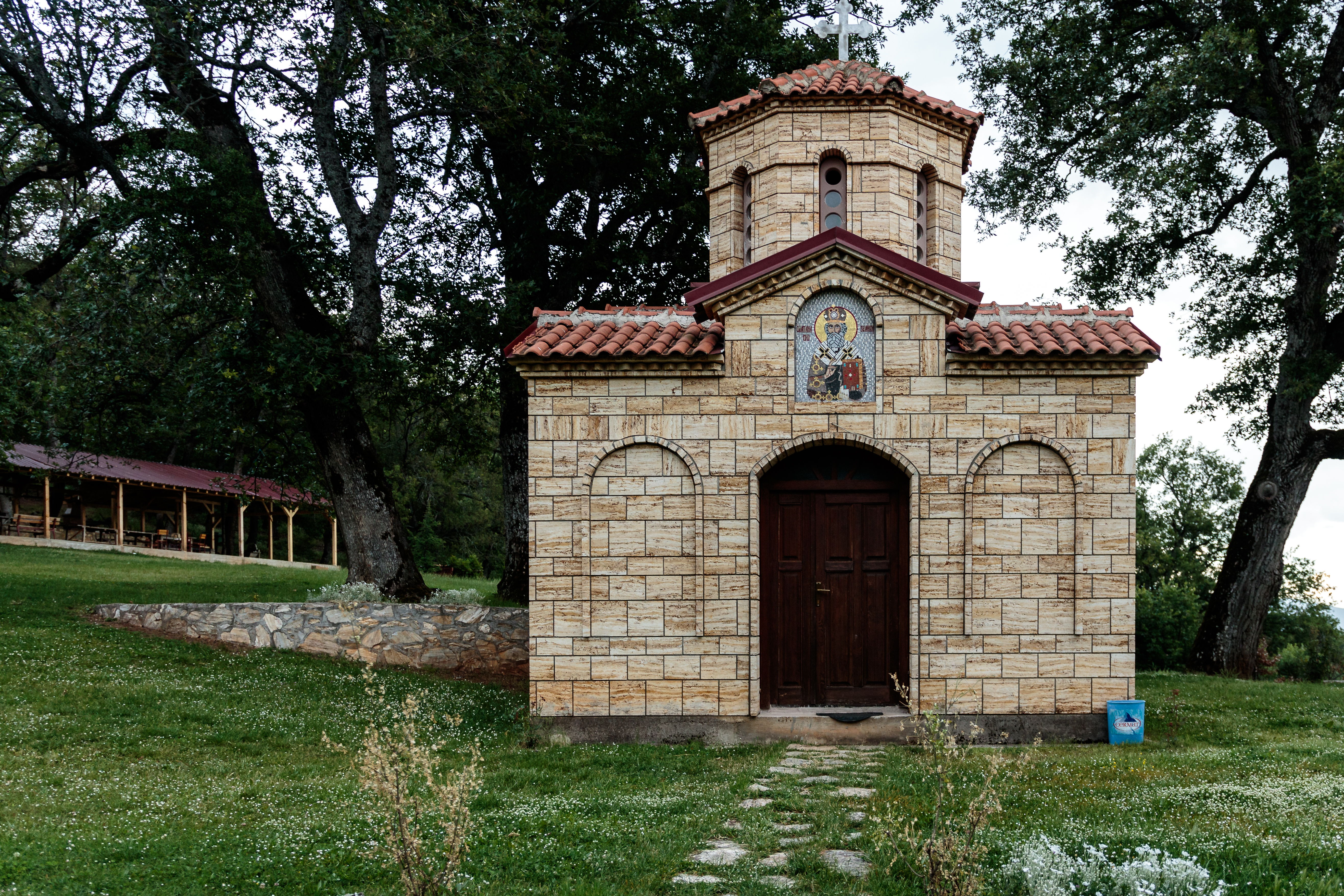 View of St. Athanasius Church in the village Sopotnica